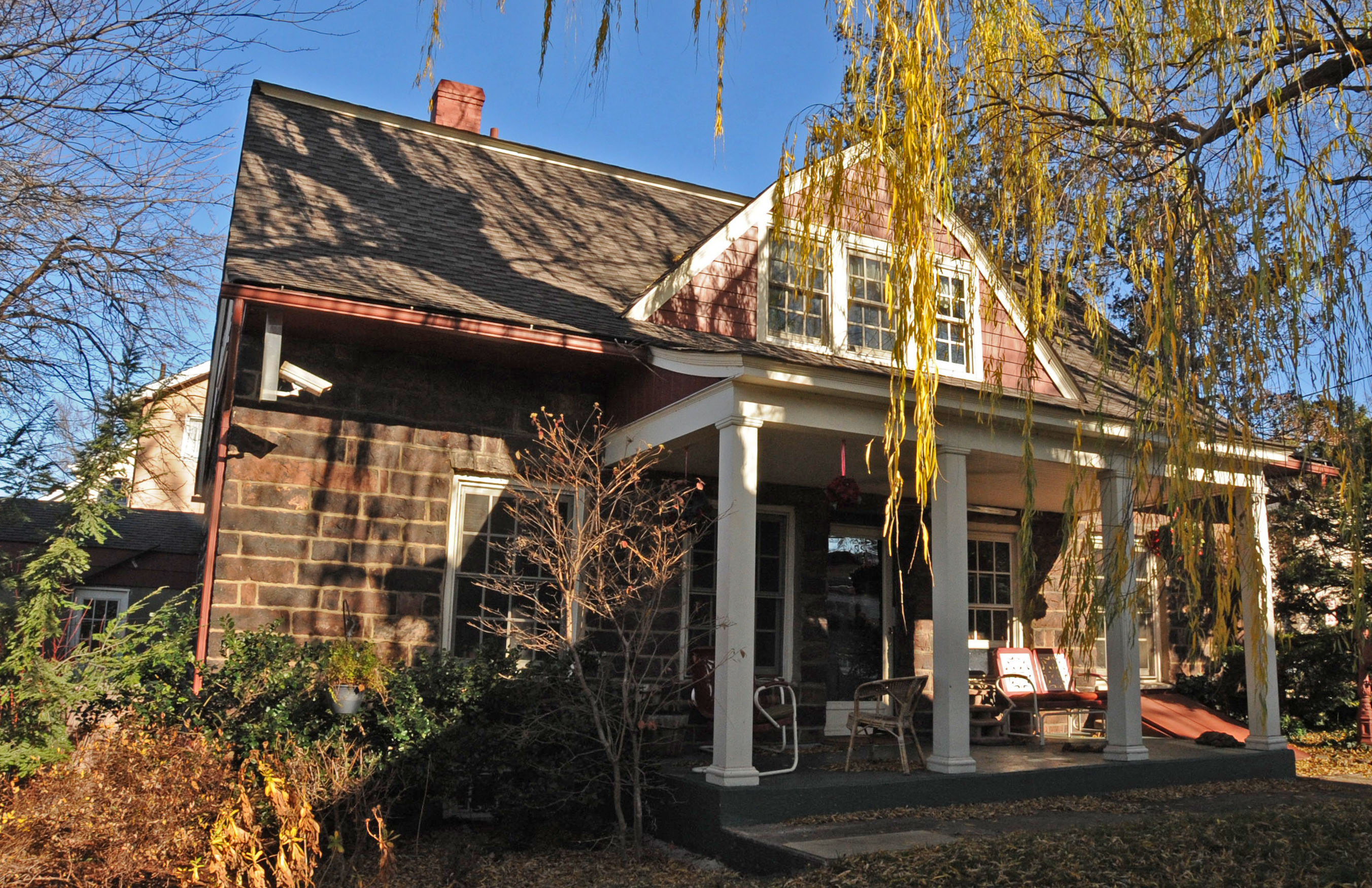 BUILT CIRCA 1779 BY JOHN PAULISON. HIS SON, PAUL, INHERITED THE HOUSE IN 1826. IT WAS THE SITE OF FREQUENT RAIDS BY THE BRITISH DURING THE REVOLUTION. DAVID CHRISTIE PURCHASE THE HOUSE FOR HIS SON IN 1826 AND THE HOUSE REMAINED IN THE CHRISTIE FAMILY FOR 140 YEARS.